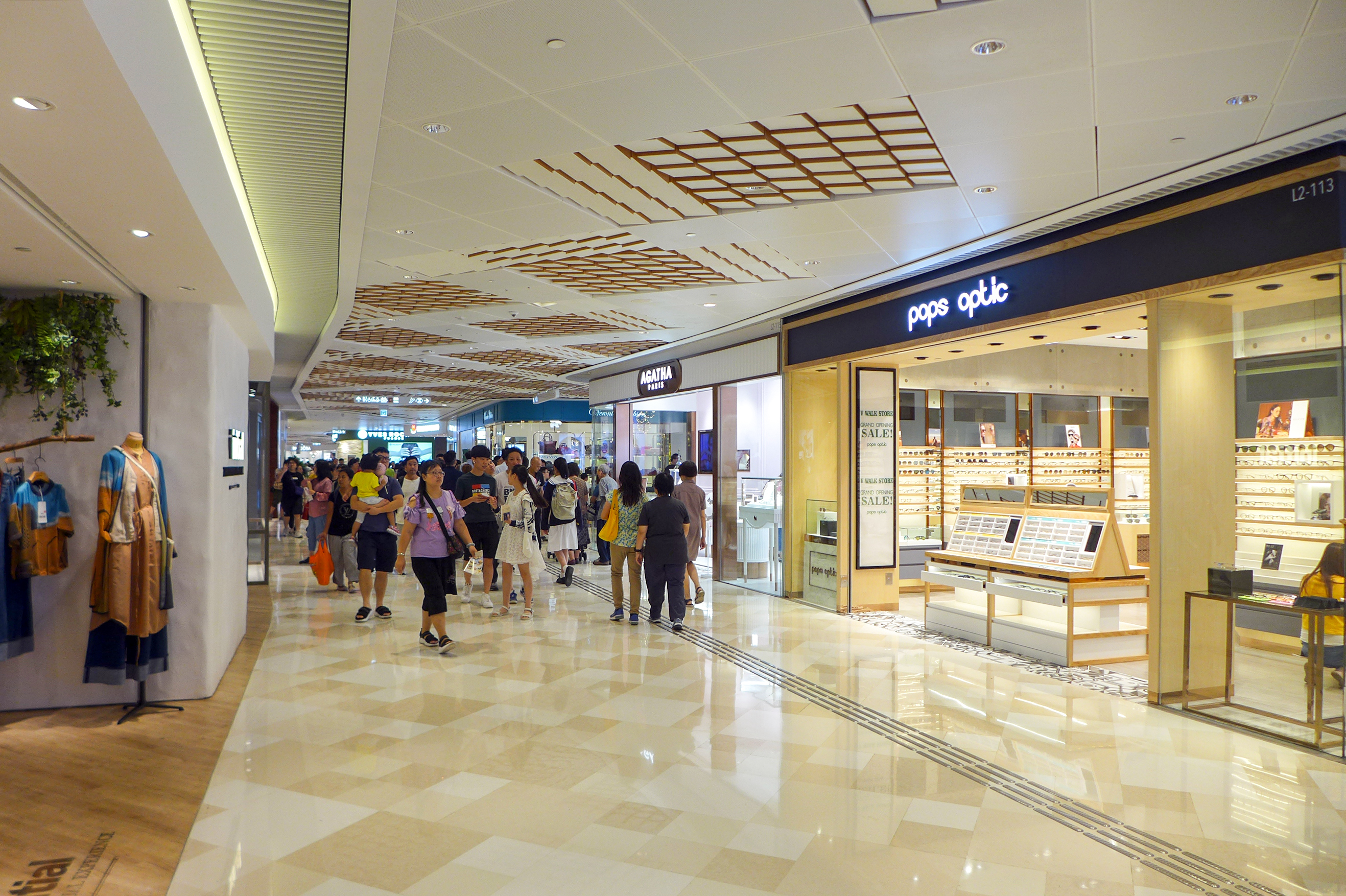 V Walk Level 2 Shops